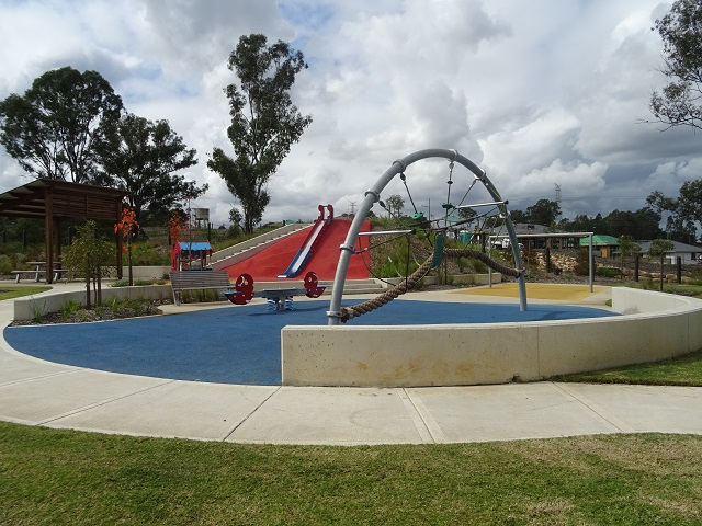 Newly built playground in Ropes Crossing, NSW